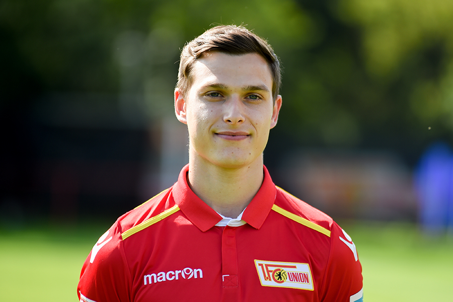 Teamfoto 2016/17